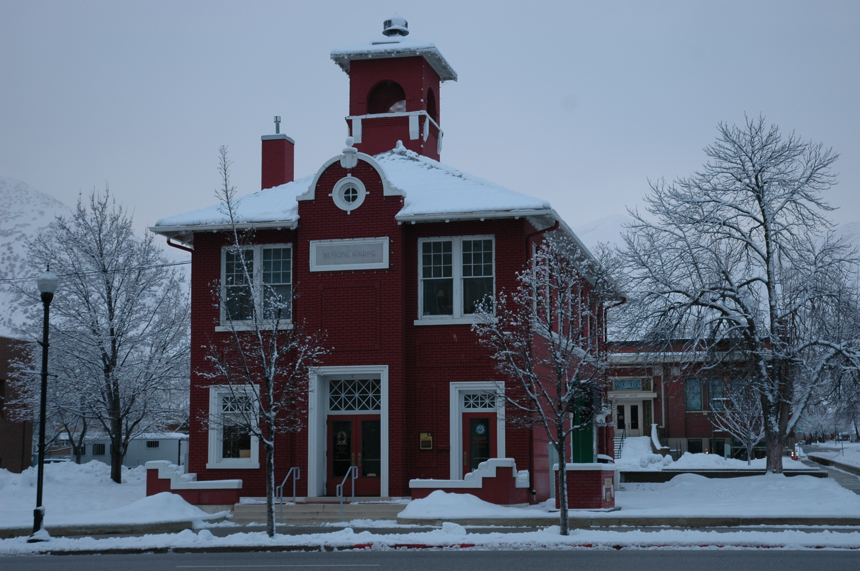 Brigham City Municipal Building, a historic building in Brigham City, Utah, United States